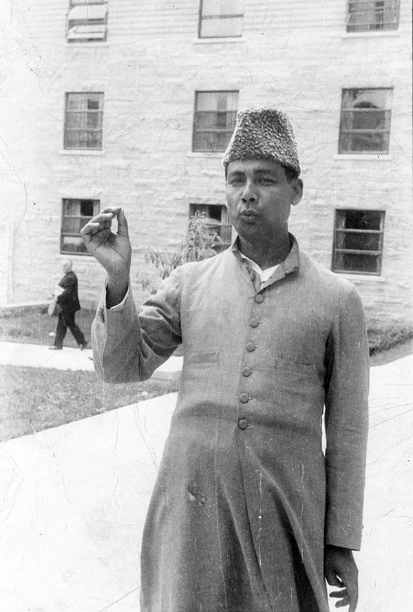 Bengali Poet Jashimuddin